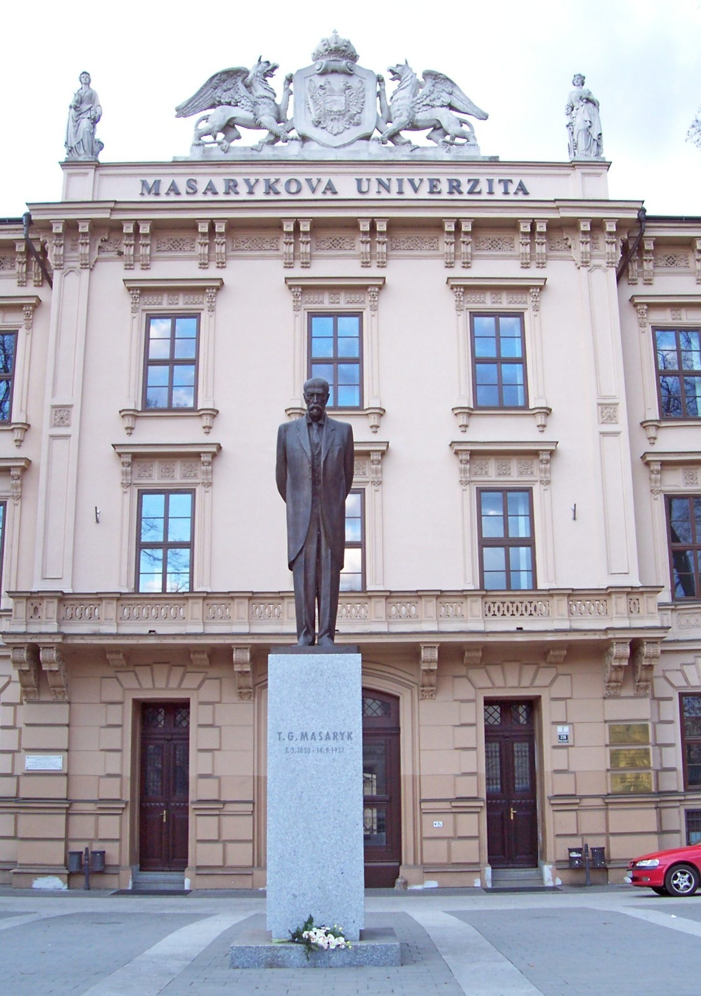 Statue of the first Czechoslovac prezident T.G.Masaryk